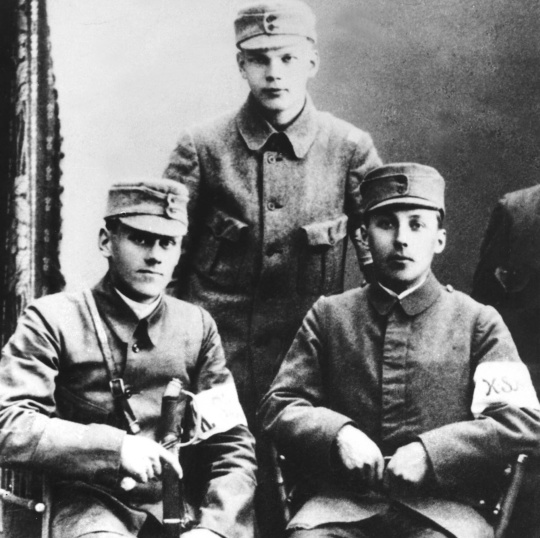 Urho Kekkonen (in the middle) was detailed to lead a firing squad at age 17, when he participated in the War of liberty.